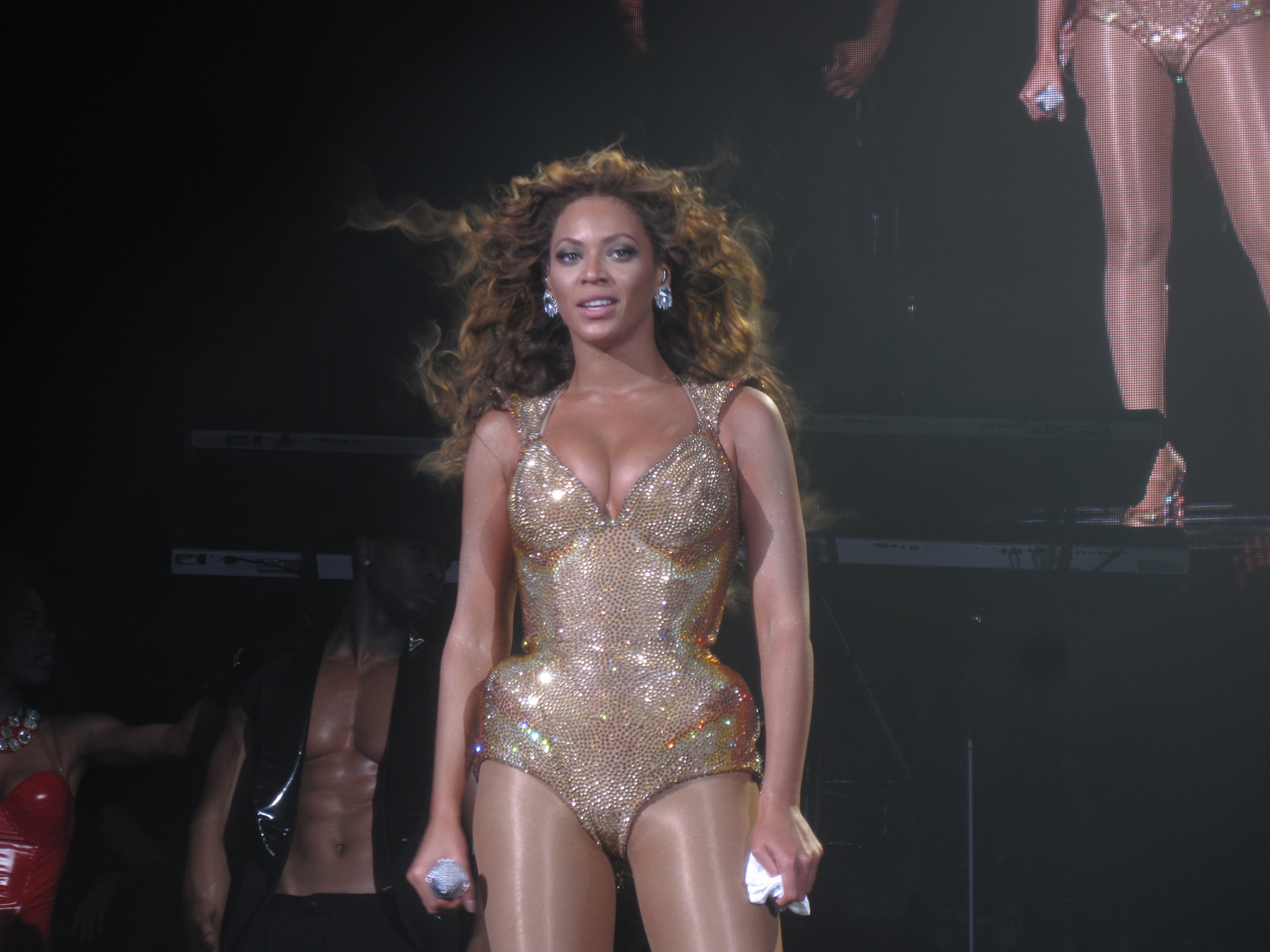 Beyoncé performing on The O2 in London.